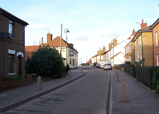 The Street, Iwade Hard to believe that this used to be the main road to the Isle of Sheppey. The road has now been "traffic calmed". On the left are 1880's cottages, and the Woolpack Inn. On the right are a mixture of modern and older housing. Since a bypass was built, Iwade has dramatically expanded.